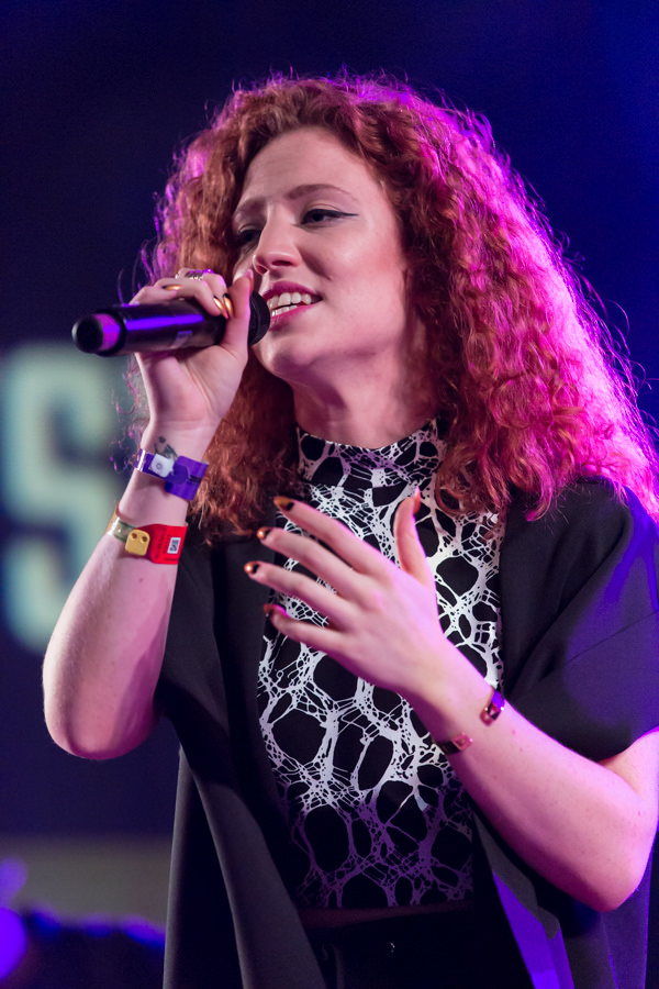 Jess on the Stubs stage during SxSW. Stubs was tough as it is an outdoor venue and there was misty rain all night.